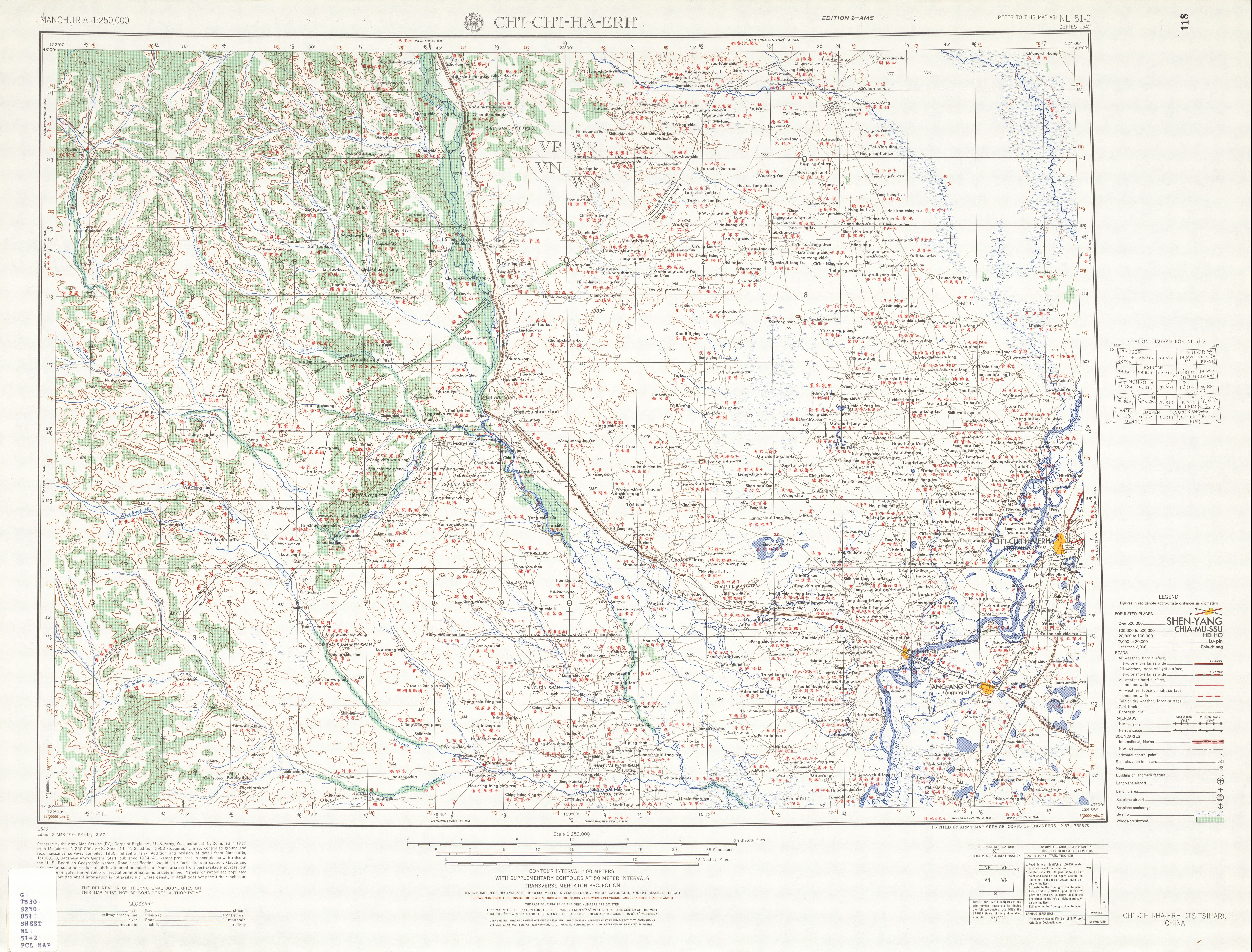 Manchuria AMS Topographic Maps